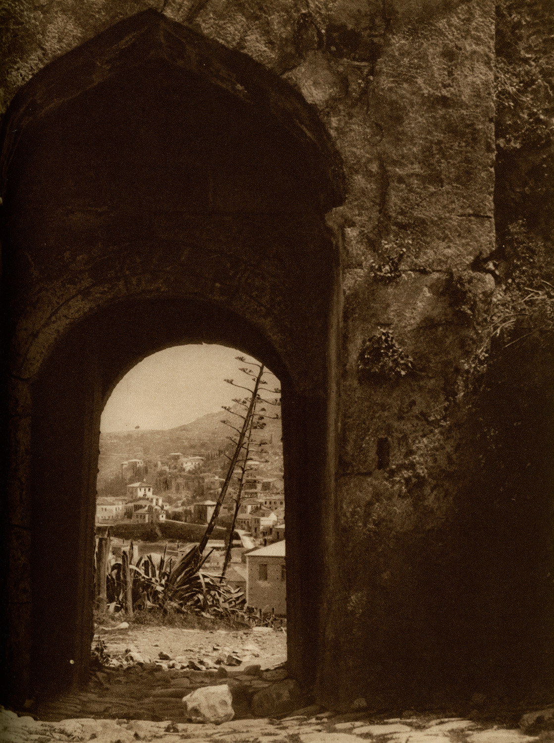 Francesco Perilla. Mistra. Histoires franques-byzantines-catalanes en Grèce, notes d’art et de voyages. Dessins-aquarelles-photographies de l’auteur, Athens, Éditions Perilla (1929).